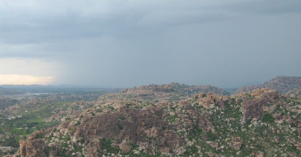 View from atop Aanjaneya Parvat (some say Rishimyuk Parvat), to the city/forest area.